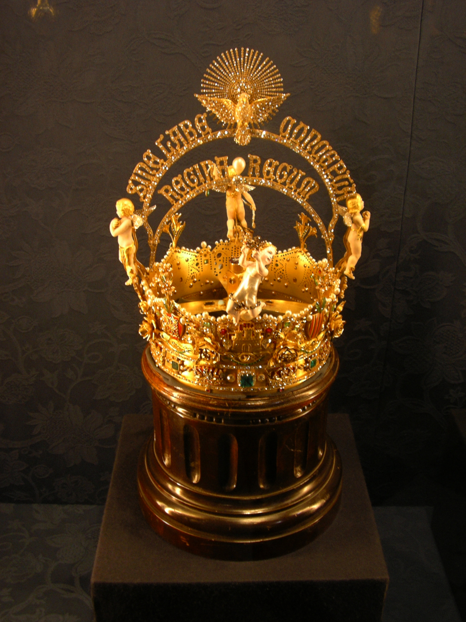 Crown in the Treasury of Seville Cathedral.